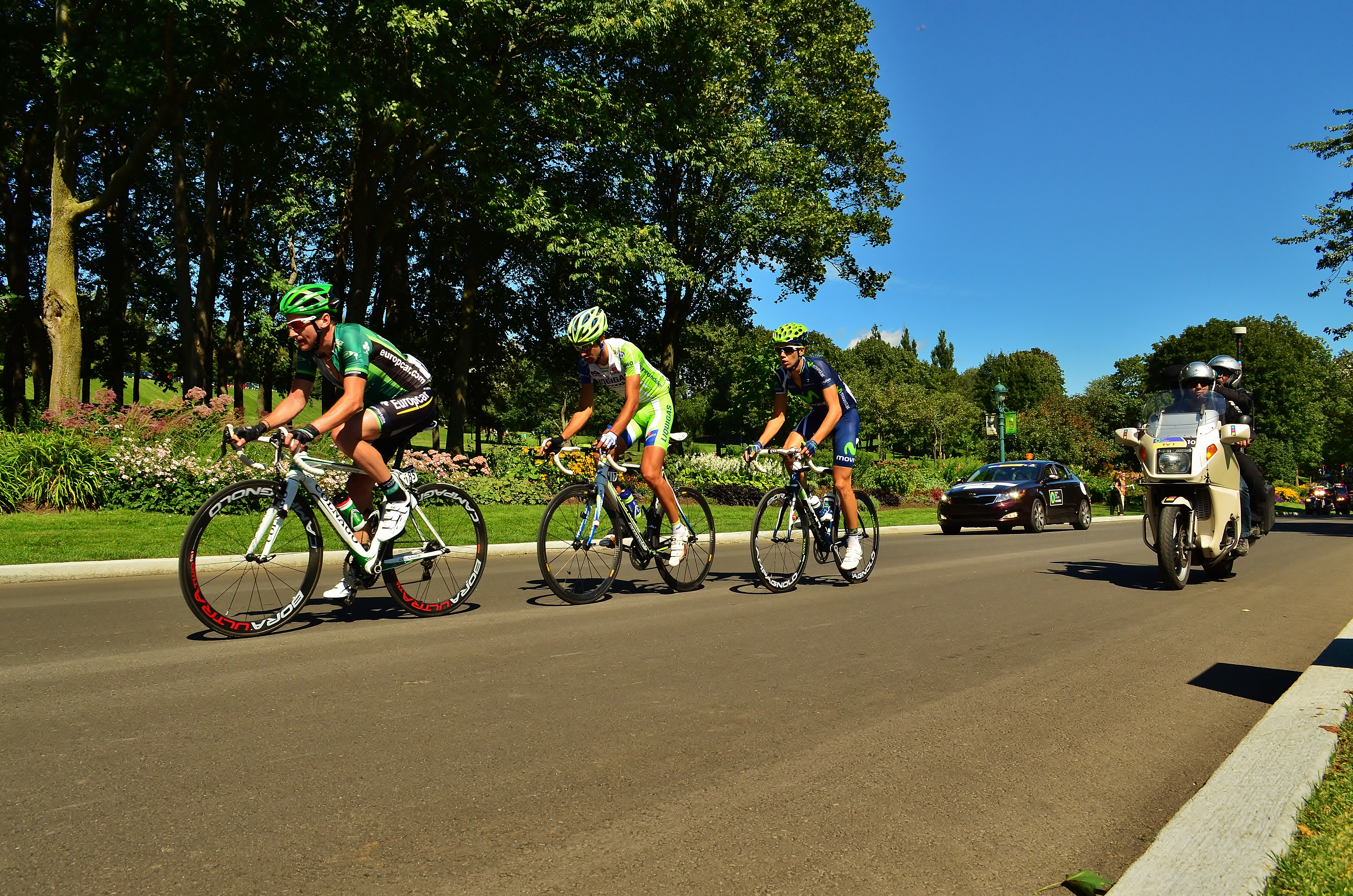 A breakaway pack on the Plains of Abraham during Quebec City's Grand Prix Cycliste 2011. Can be seen from left to right:Tony Hurel (Europcar), Cristiano Salerno (Liquigaz) et Jesus Herrada (Movistar).